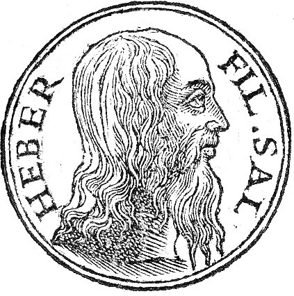 Eber was a great-grandson of Noah's son Shem and the father of Peleg and Joktan, sometimes also known as "Heber" in English.